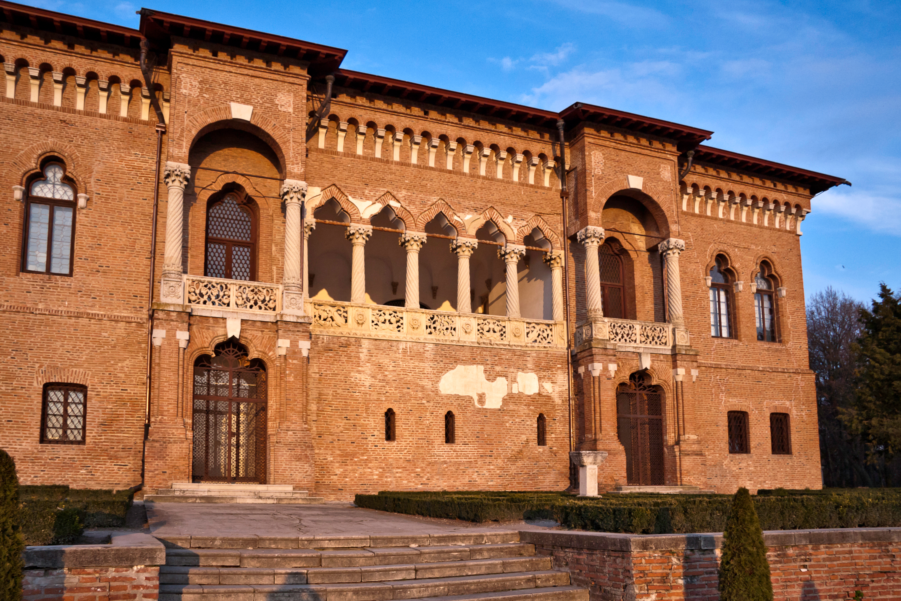 Ornate decorations of the balcony on the southern side of the Mogosoaia Palace, bathing in the warm sunset light.